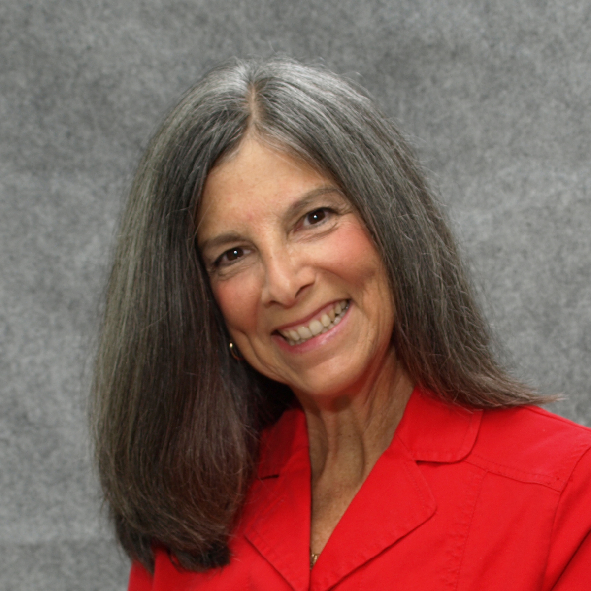 head shot of Athlete/Author of "Eat Vegan on $4 a Day," Ellen Jaffe Jones